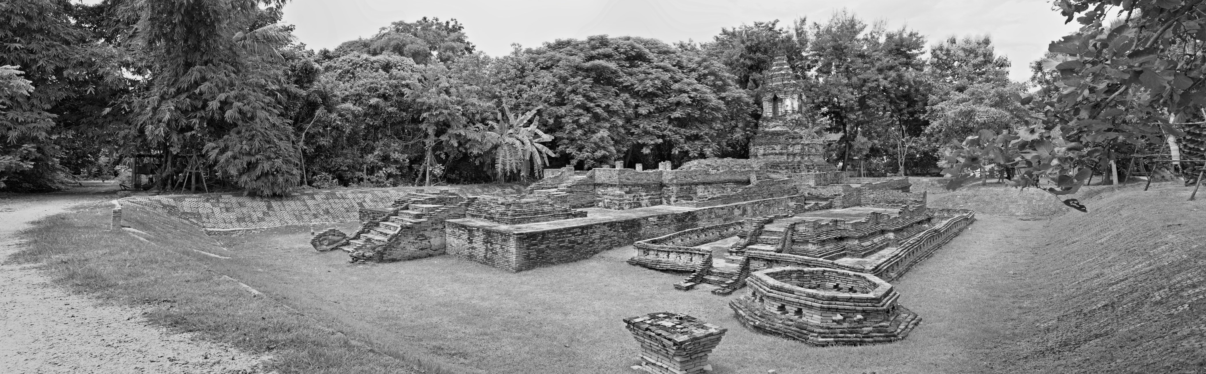 Wat Pupia as viewed from the north. One of the ruined temples of the Wiang Kum Kam archaeological complex near Chiang Mai in northern Thailand.